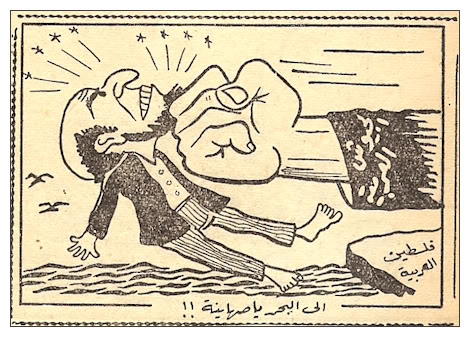 "The Zionists into the sea," Al-Arabiya Al-Jamahir , Baghdad, June 8, 1967